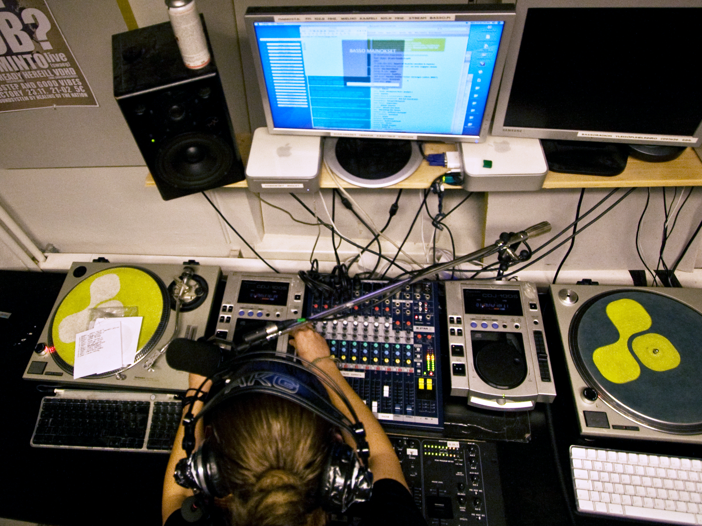 Studio of Finnish local radio station "Basso radio"